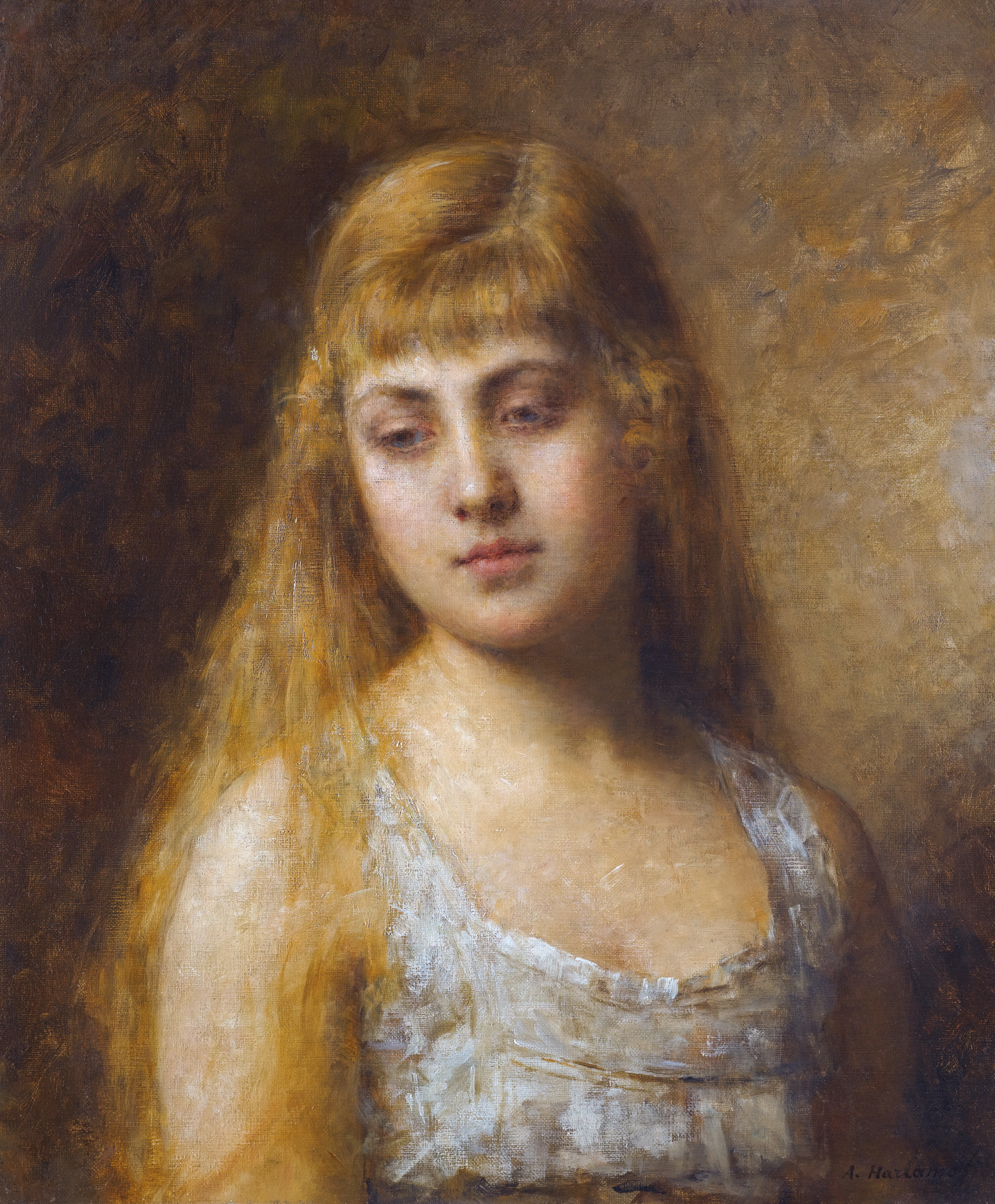 Felia Litvinne (1860-1936) oil on canvas 55.5 x 46 cm signed l.r.